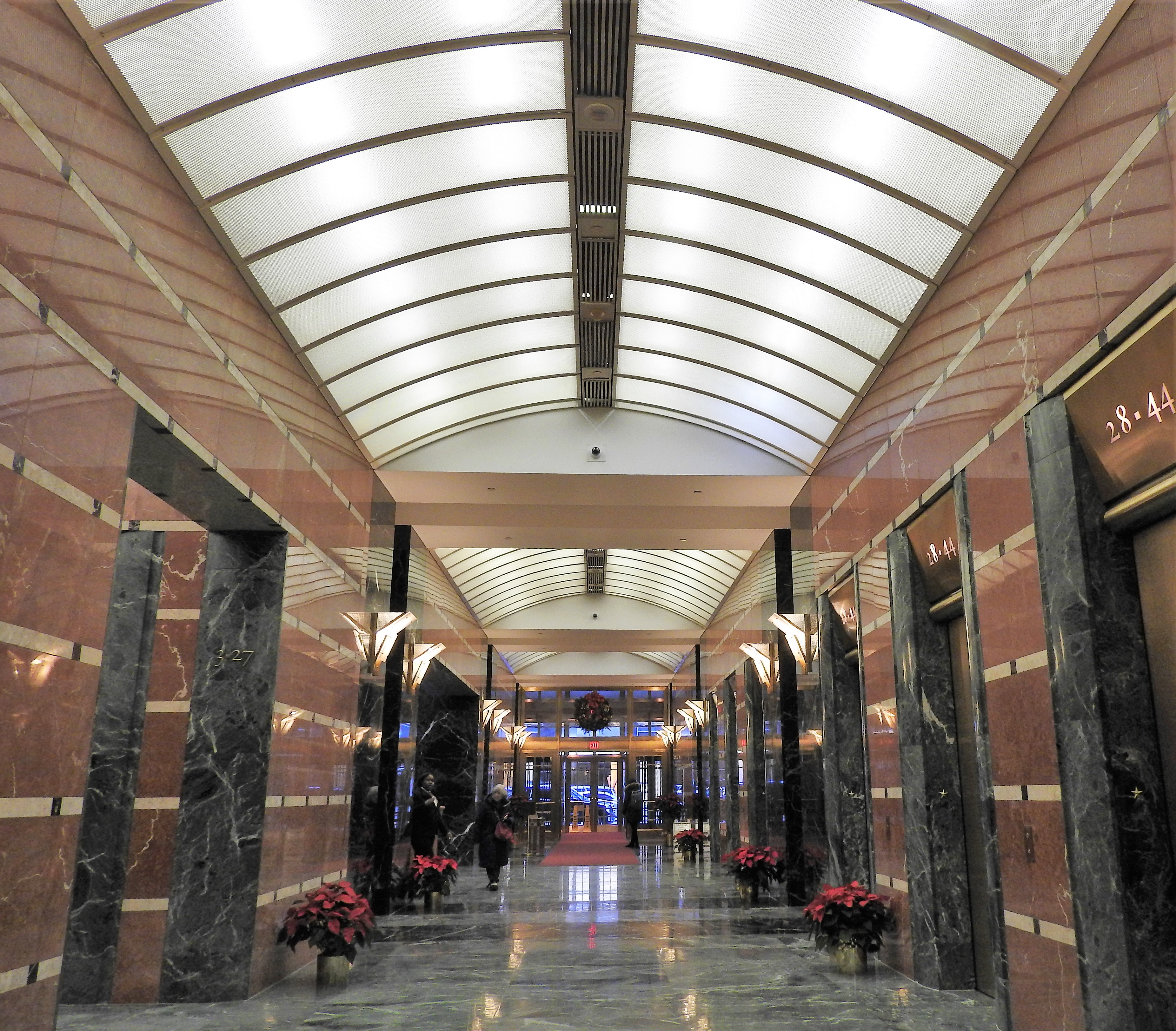 Looking north in the south lobby